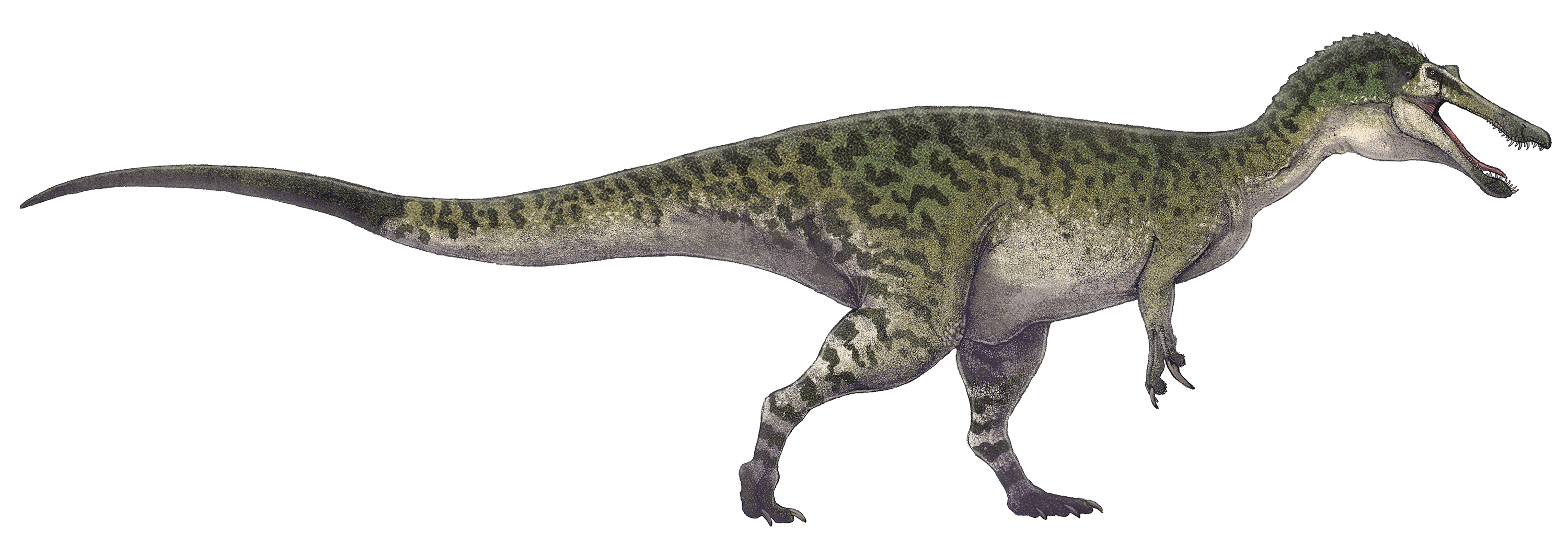 Life restoration of Baryonyx walkeri based on Scott Hartman's skeletal.[1]